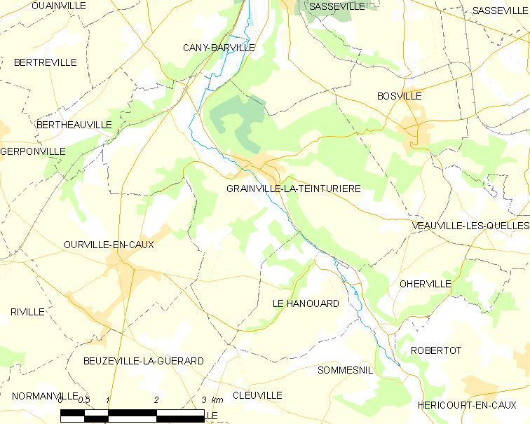 Map of French municipality Grainville-la-Teinturière